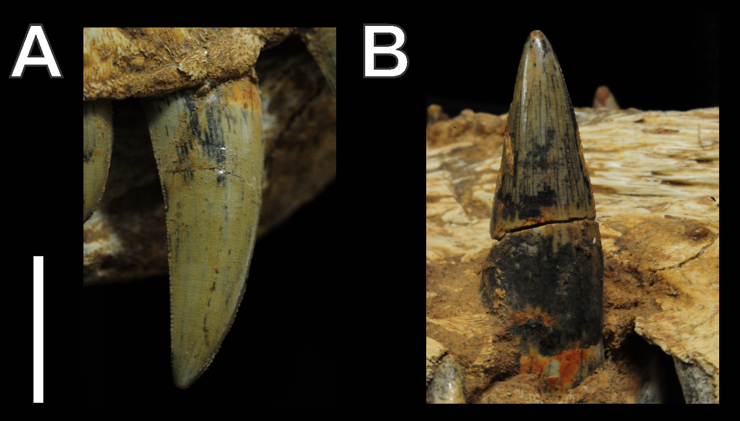 The largest teeth of Aplestosuchus sordidus. A, Third maxillary (right) tooth; B, Fourth dentary (right) tooth. Scale bar equals 2 cm.